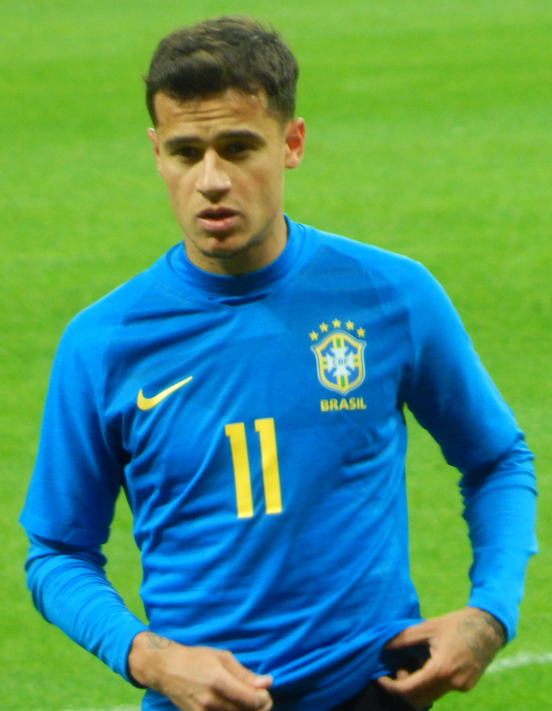 Brazilian footballer Philippe Coutinho